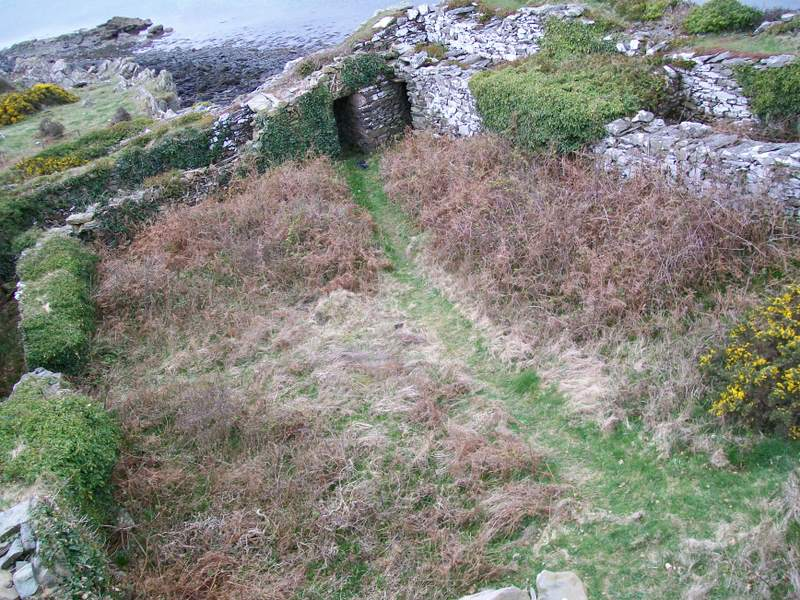 Castle Haven, Dumfries and Galloway, Scotland. Prehistoric Dun